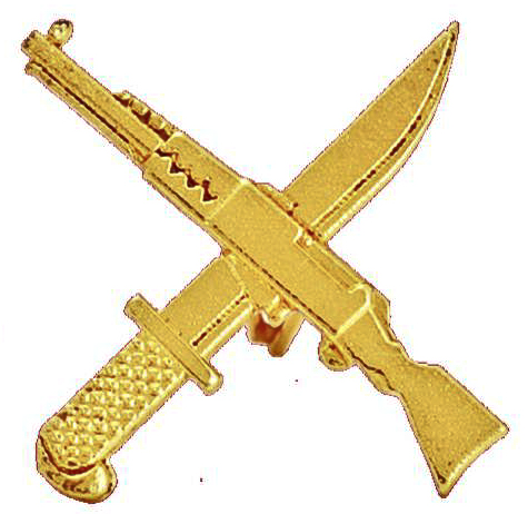 Vietnam Infantry symbol